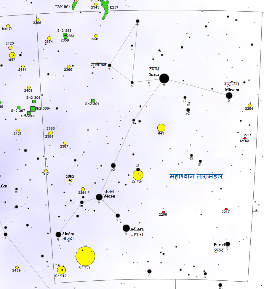 Canis Major constellation map, with DSOs